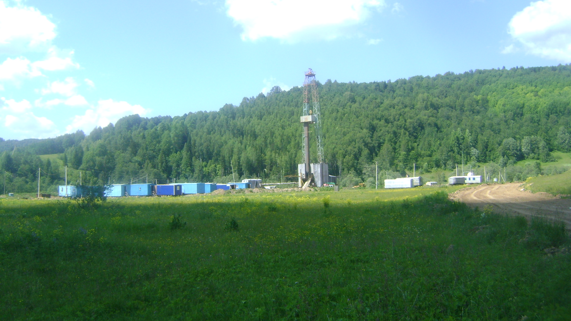 Derrick in village Krasivaia Poliana